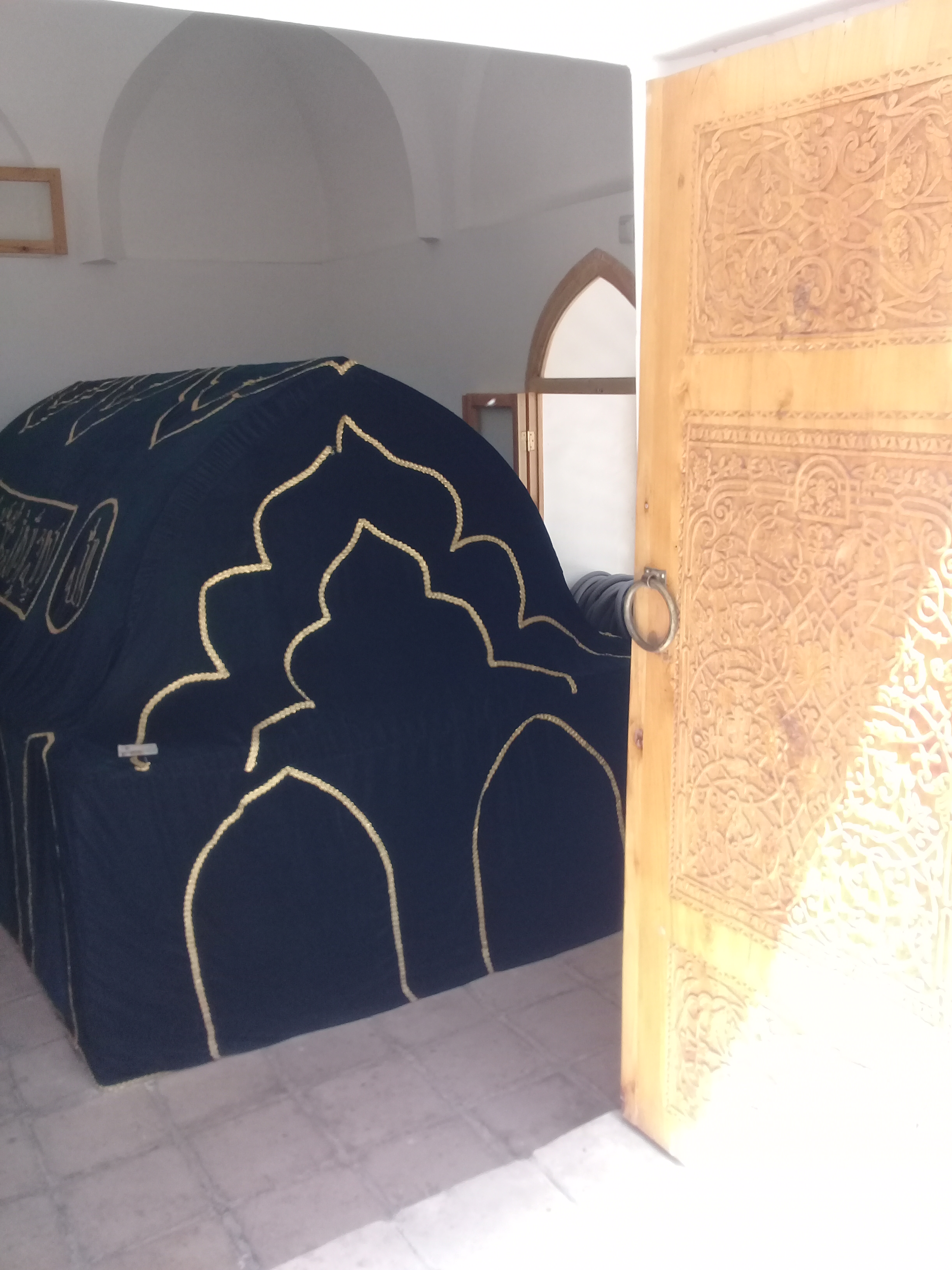 Tomb in Makhsumbobo Mausoleum in Samarkand (Uzbekistan)